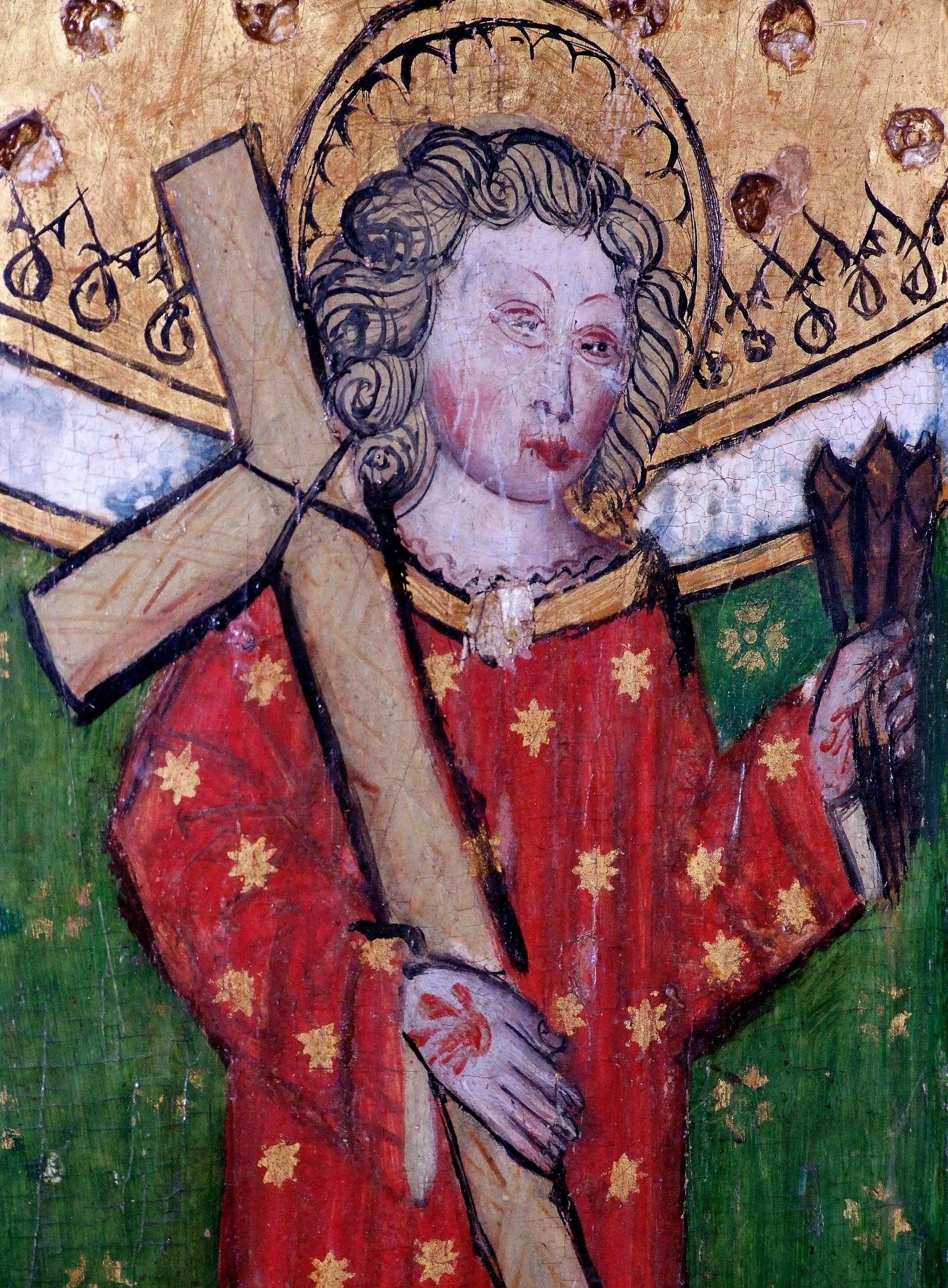 Saint William of Norwich